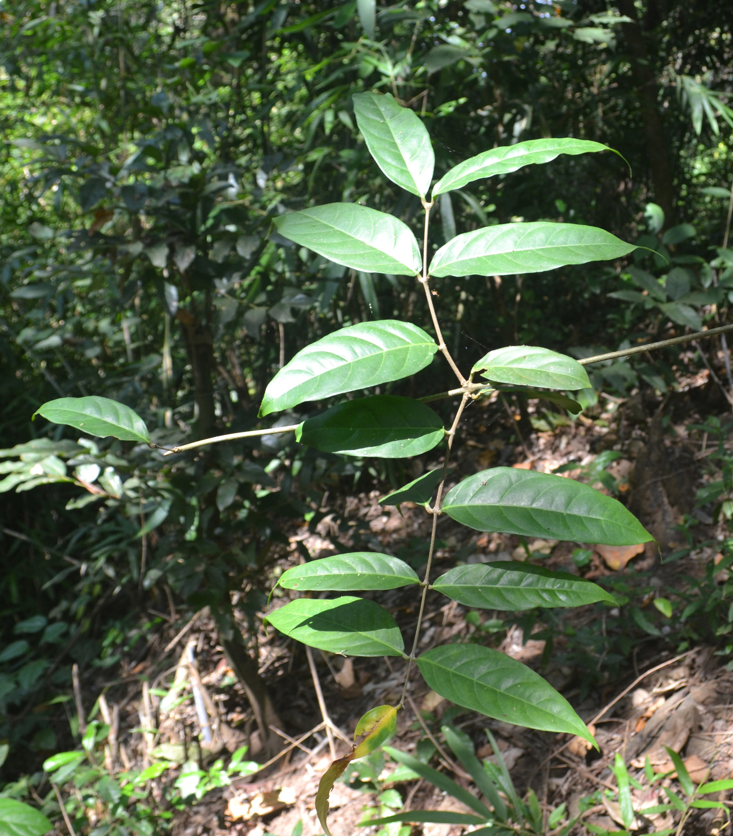 Hiptage benghalensis